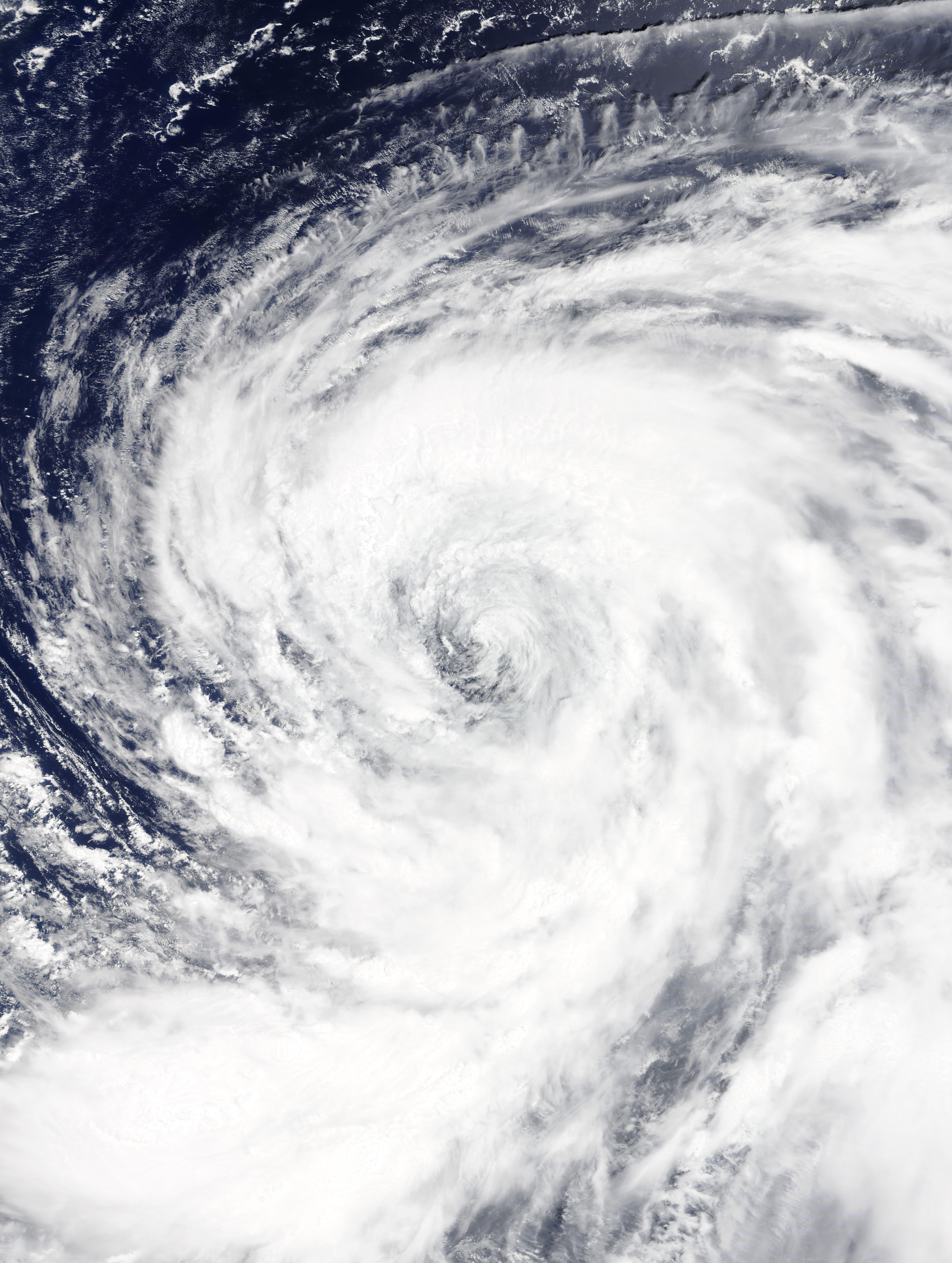 Tropical Storm Krosa (11W) in the Pacific Ocean